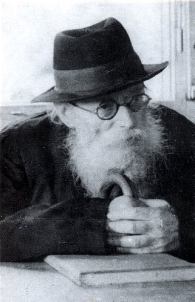 unknown author